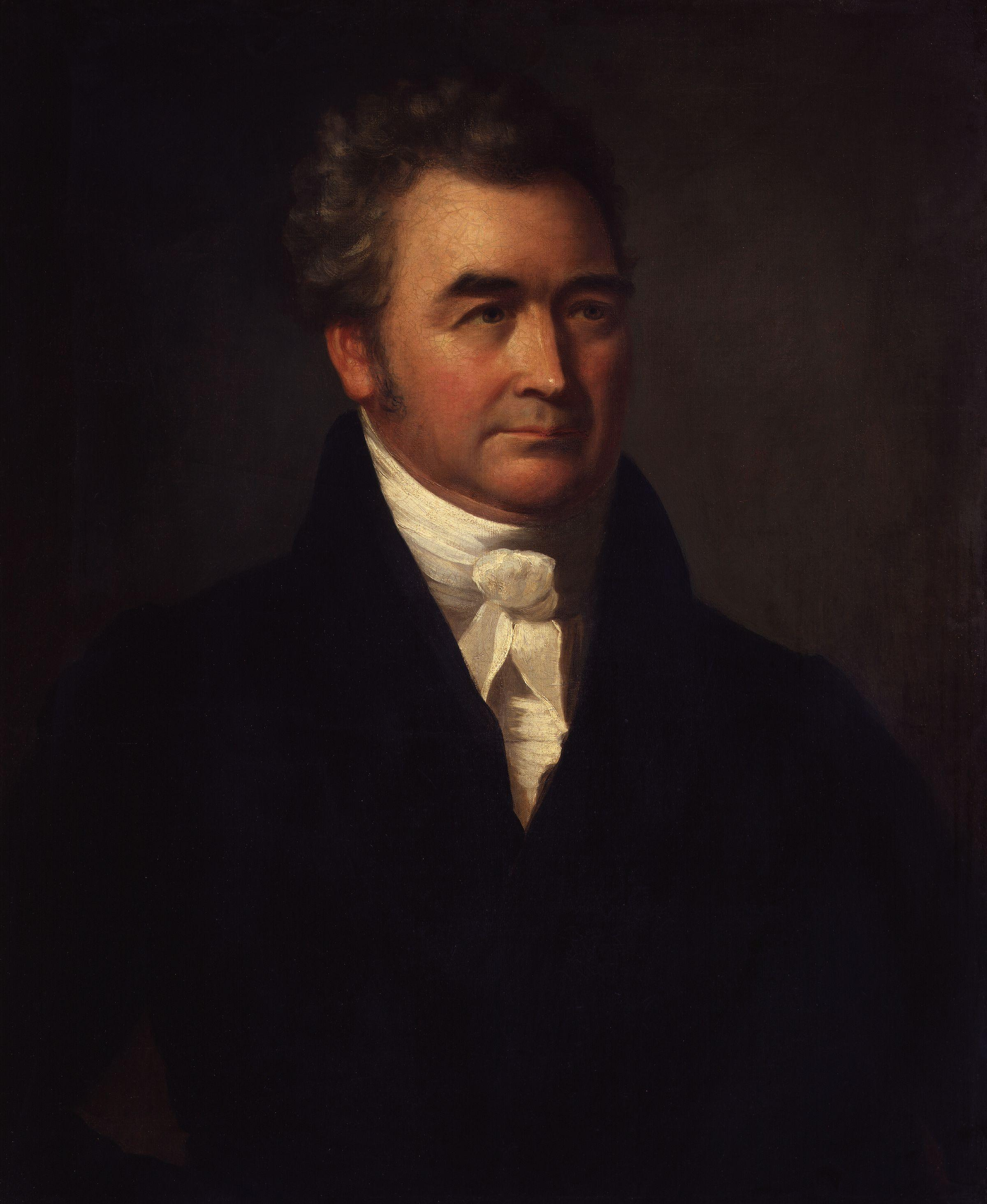 Peter Nicholson, by James Green (died 1834), given to the National Portrait Gallery, London in 1961. All images in this batch have been confirmed as author died before 1939 according to the official death date listed by the NPG.